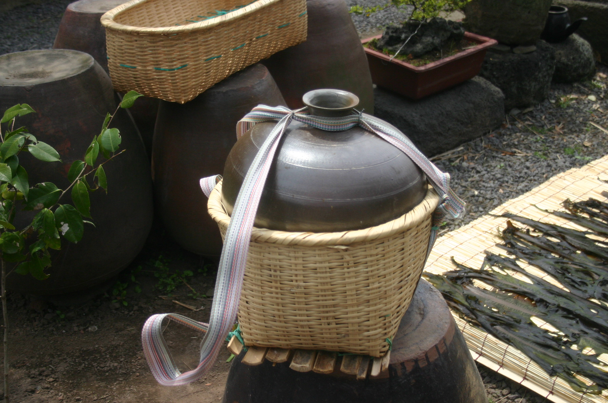 Korean pottery-Onggi